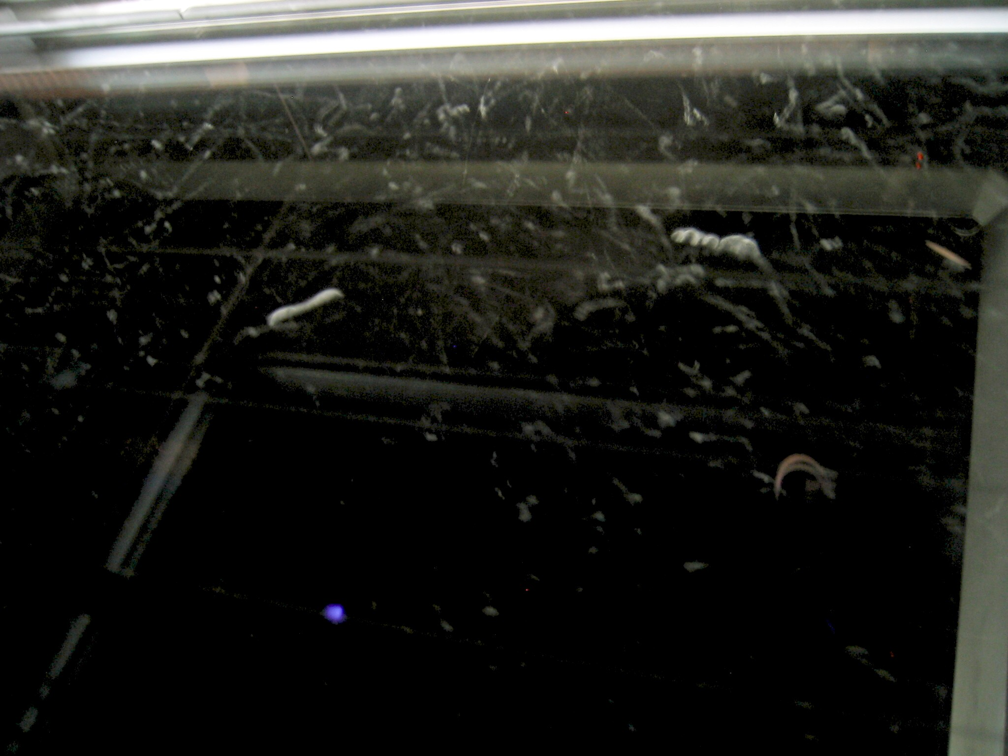 Tracks of ionizing radiation in a cloud chamber (thick, short: alpha particles; long, thin: beta particles).